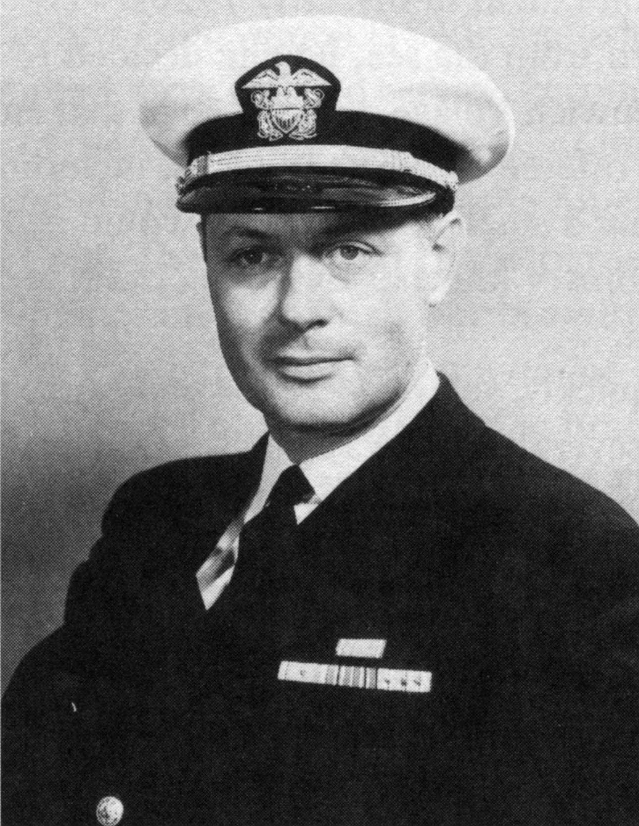 Robert Montgomery